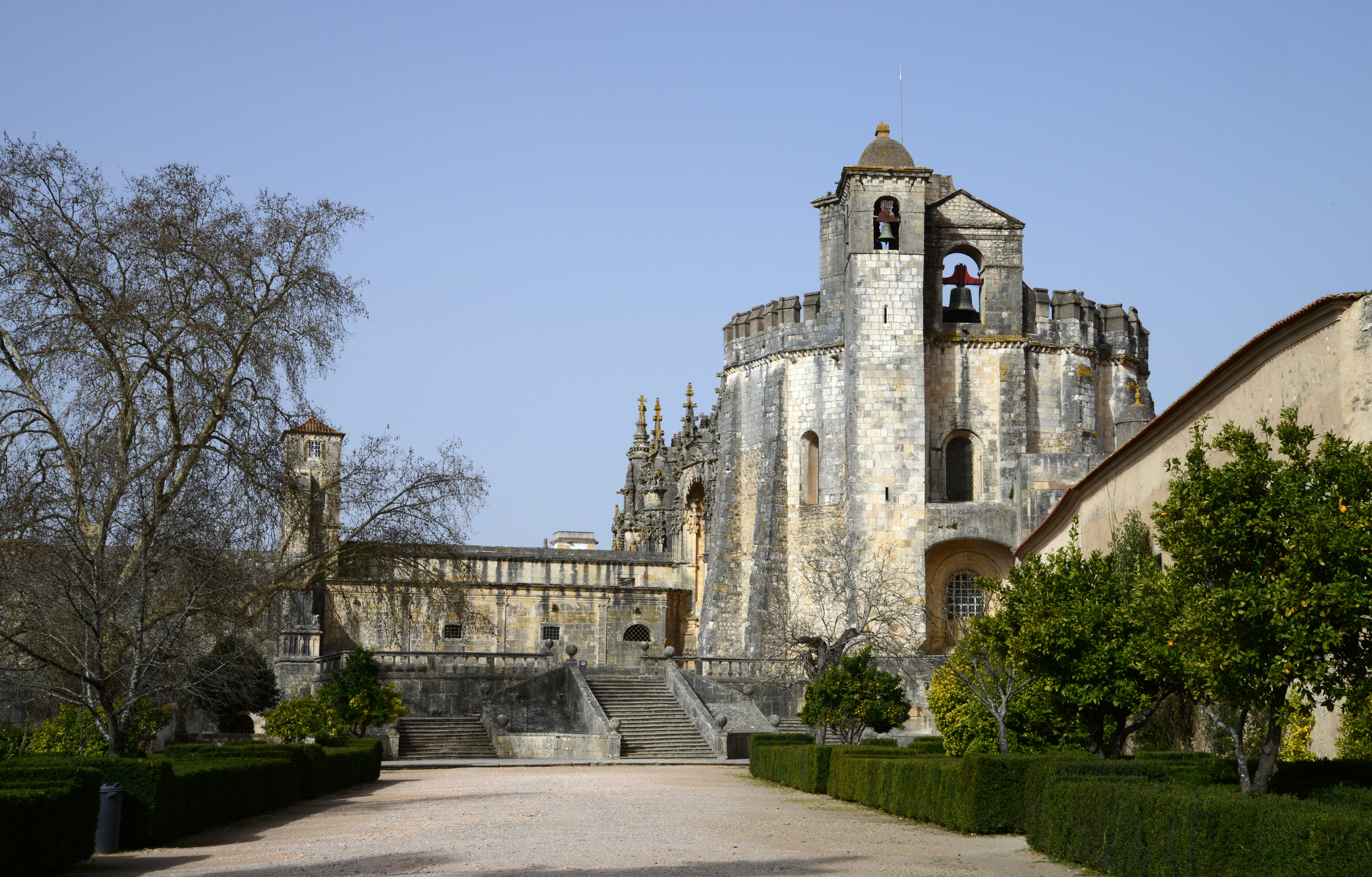 Convent of Christ, Tomar, Portugal. Church viewed from the east